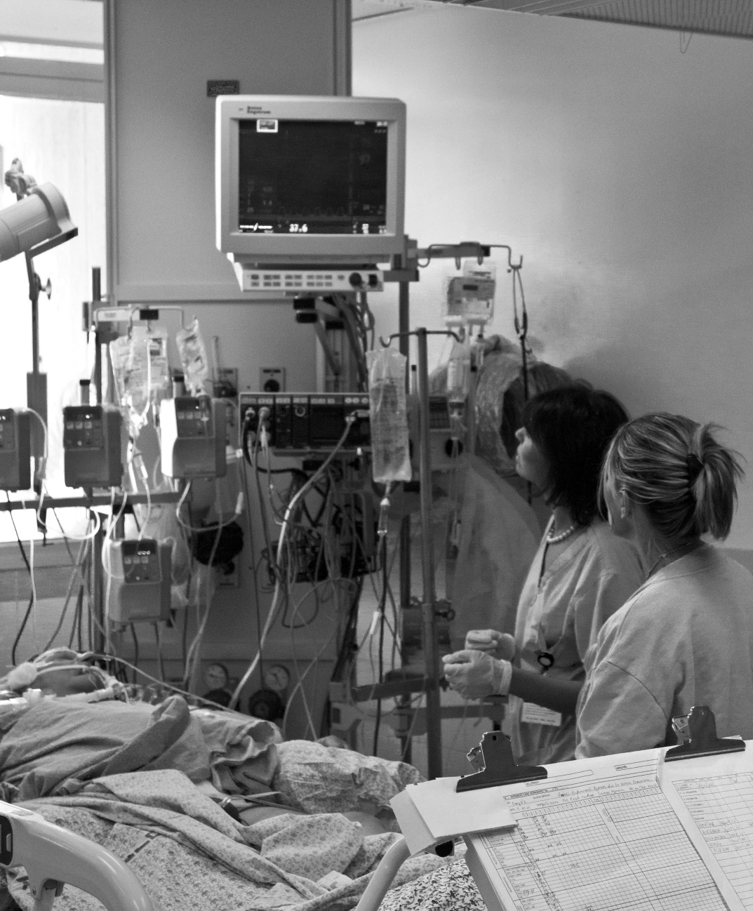 Exhibition: 24 hours in a hospital